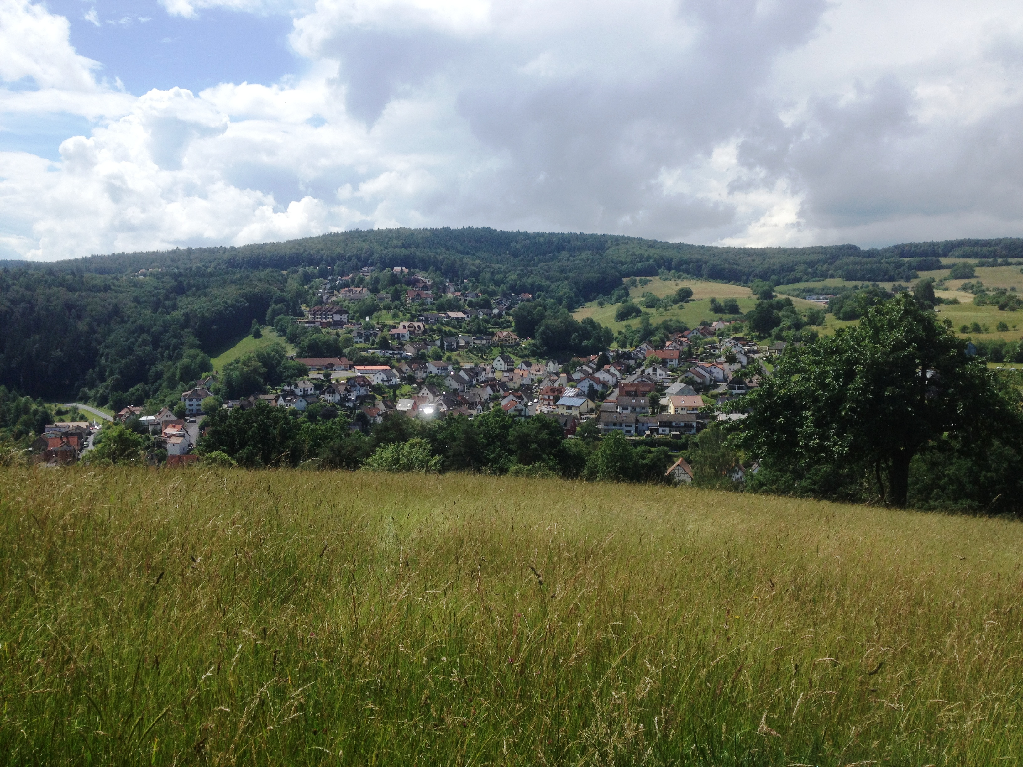 View of the vilage of Heimbuchenthal, Aschaffenburg district, Bavaria, Germany. Seen from the Panoramaweg to the east, June 2016.